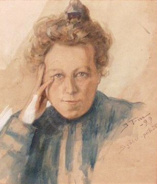 Depicted person: Ida Törnström – Swedish writer and painter